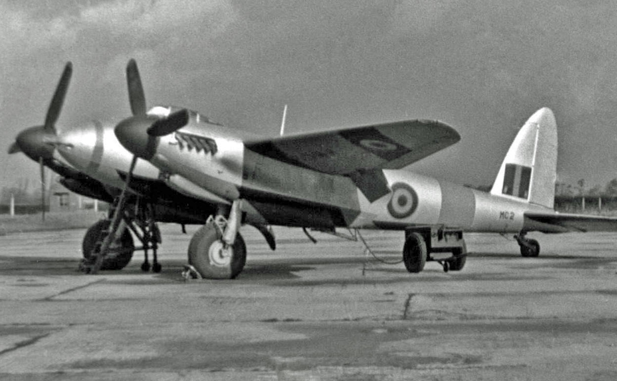 De Havilland Mosquito TT.6 target tug MC-2 of the Belgian Air Force at Manchester Airport in 1953